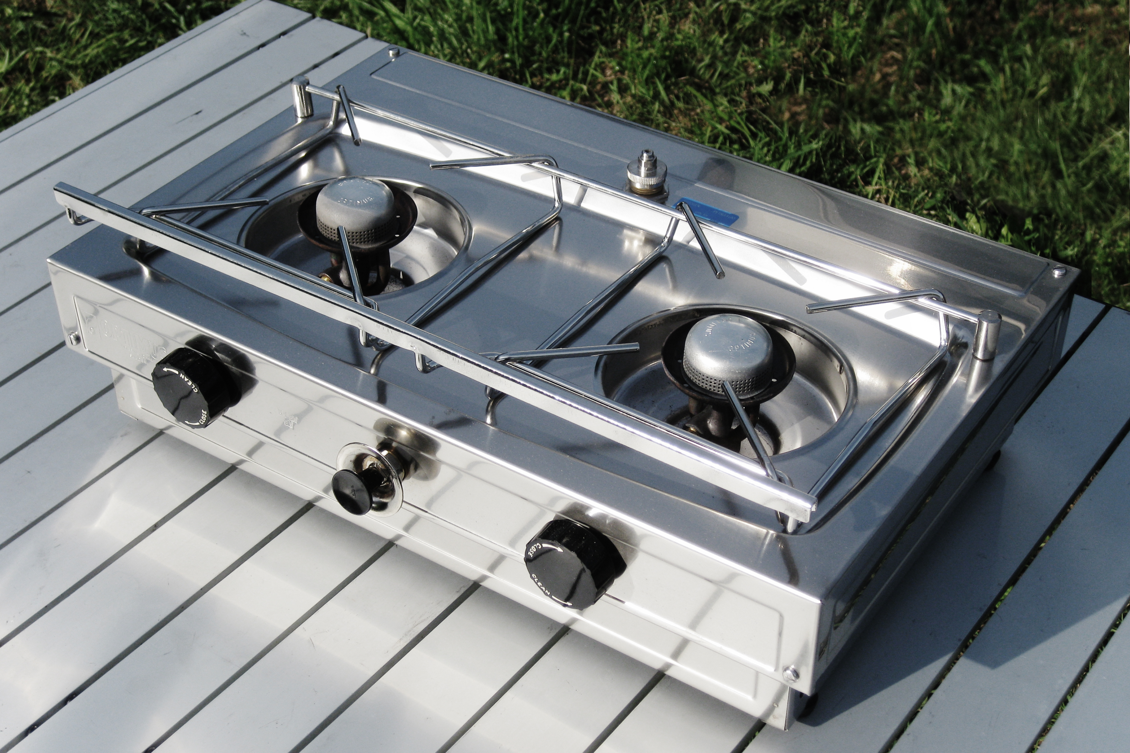 Portable paraffin stove Optimus 155W